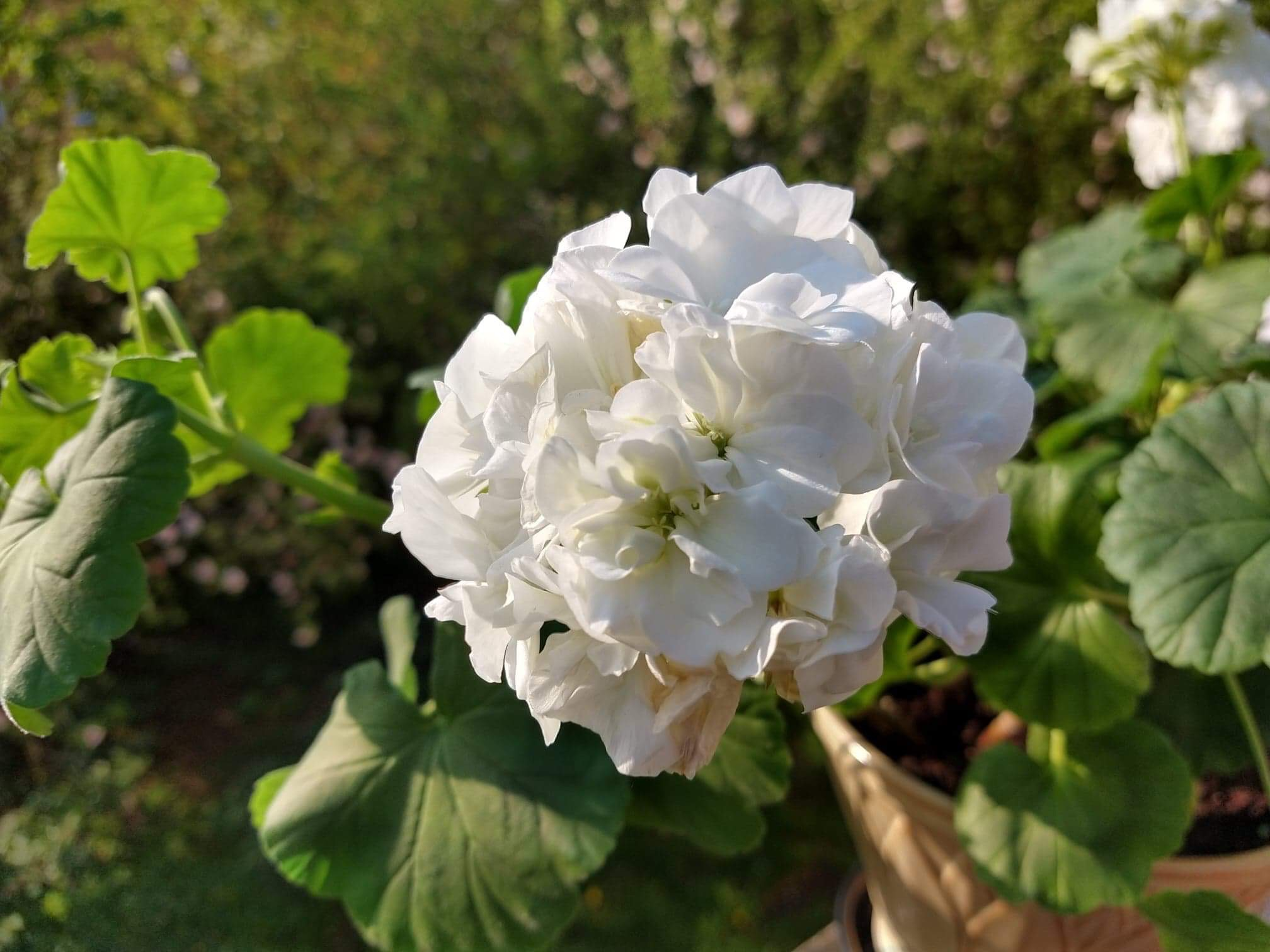 Pelargonium Karna